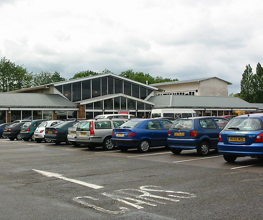 Picture of Watford Gap service station (Northbound side), afternoon of 29th May 2006